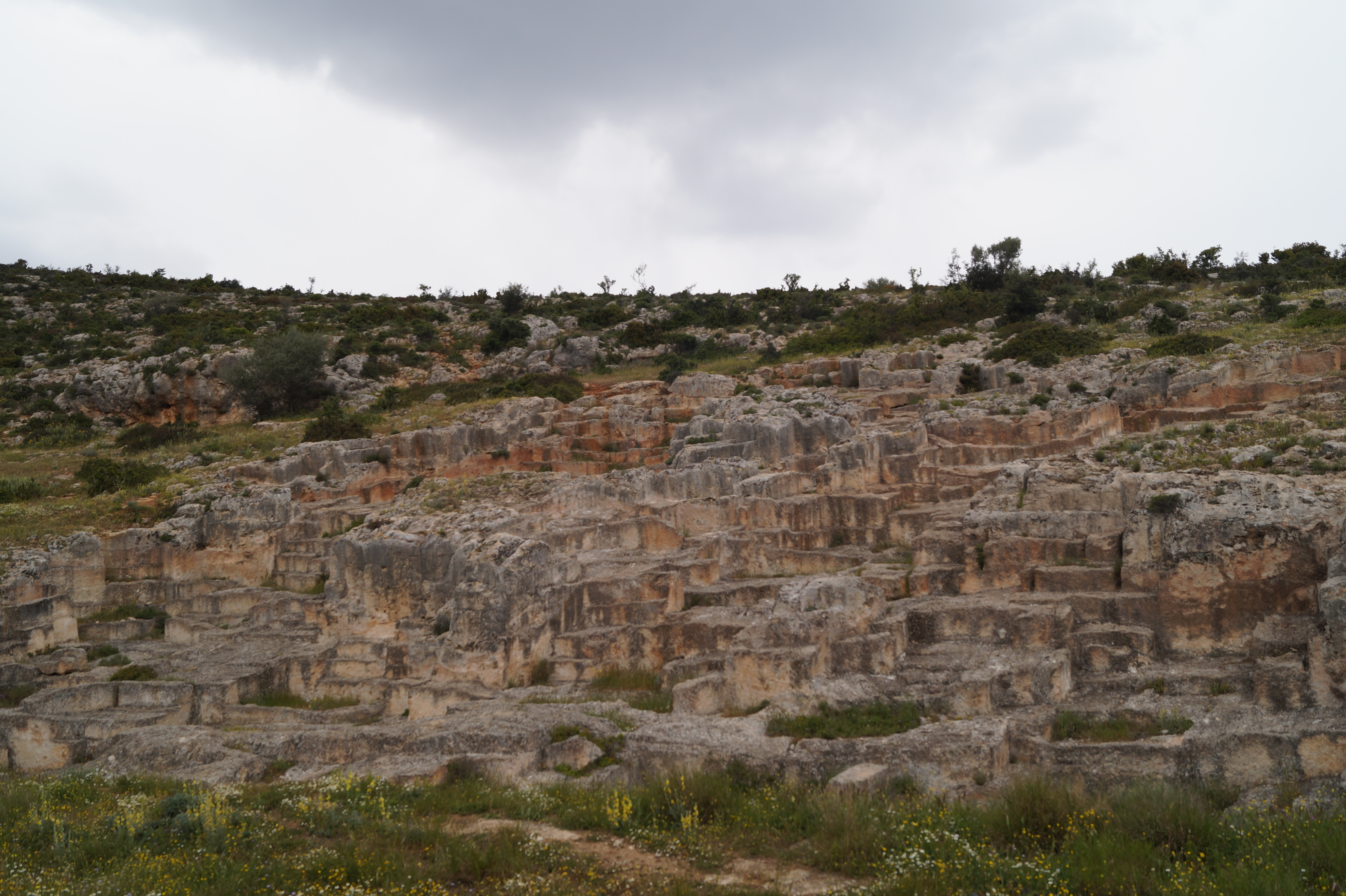 Corinthia, Greece: Quarry of Cleonae. View from the rest area of the Aftokinitodromos 7 (105.5 km).